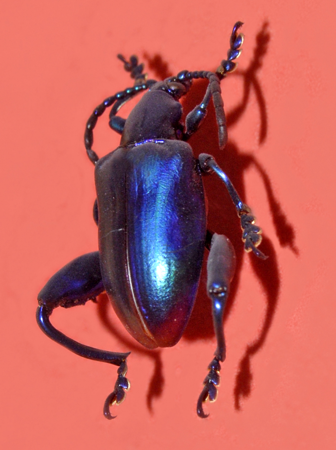 Museum specimen of Sagra femorata. On display at the Museo Civico di Storia Naturale di Milano